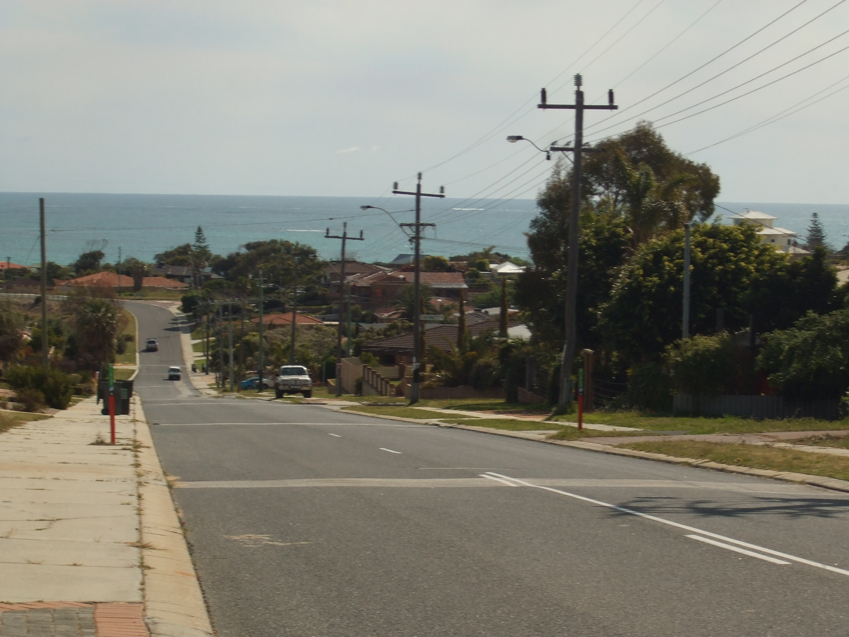 View towards the Indian Ocean down Quinns Road, Quinns Rocks, WA.